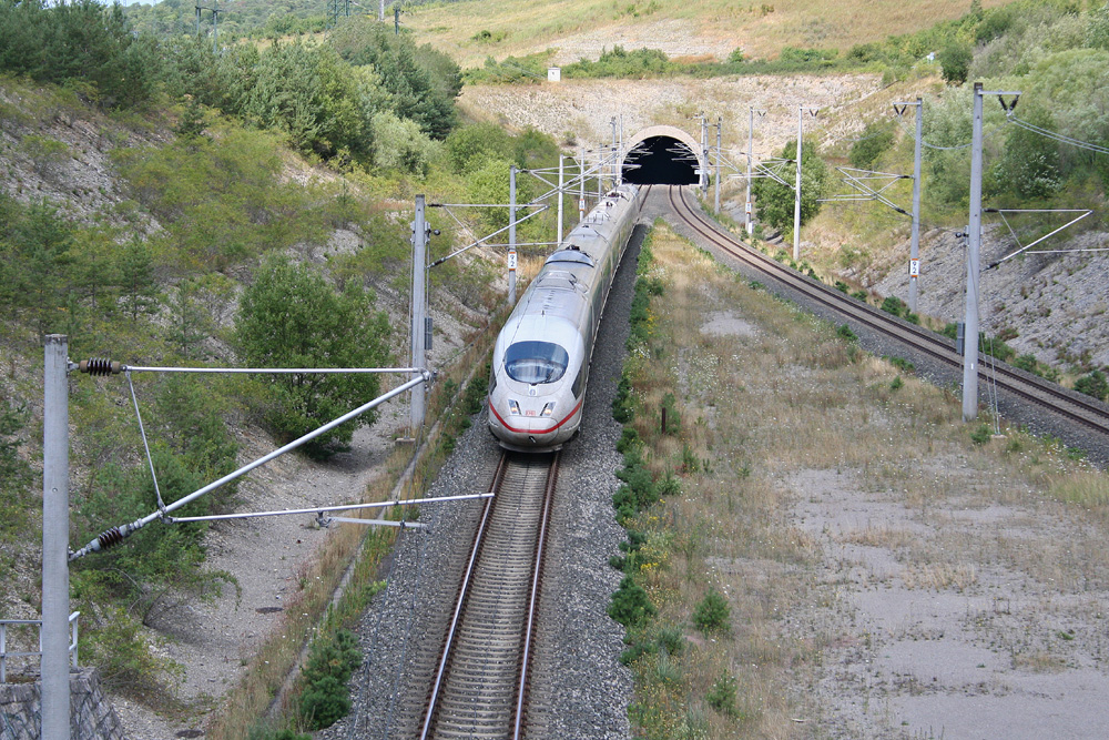 South portal of the Tunnel Rammersberg with an ICE 3 high-speed train